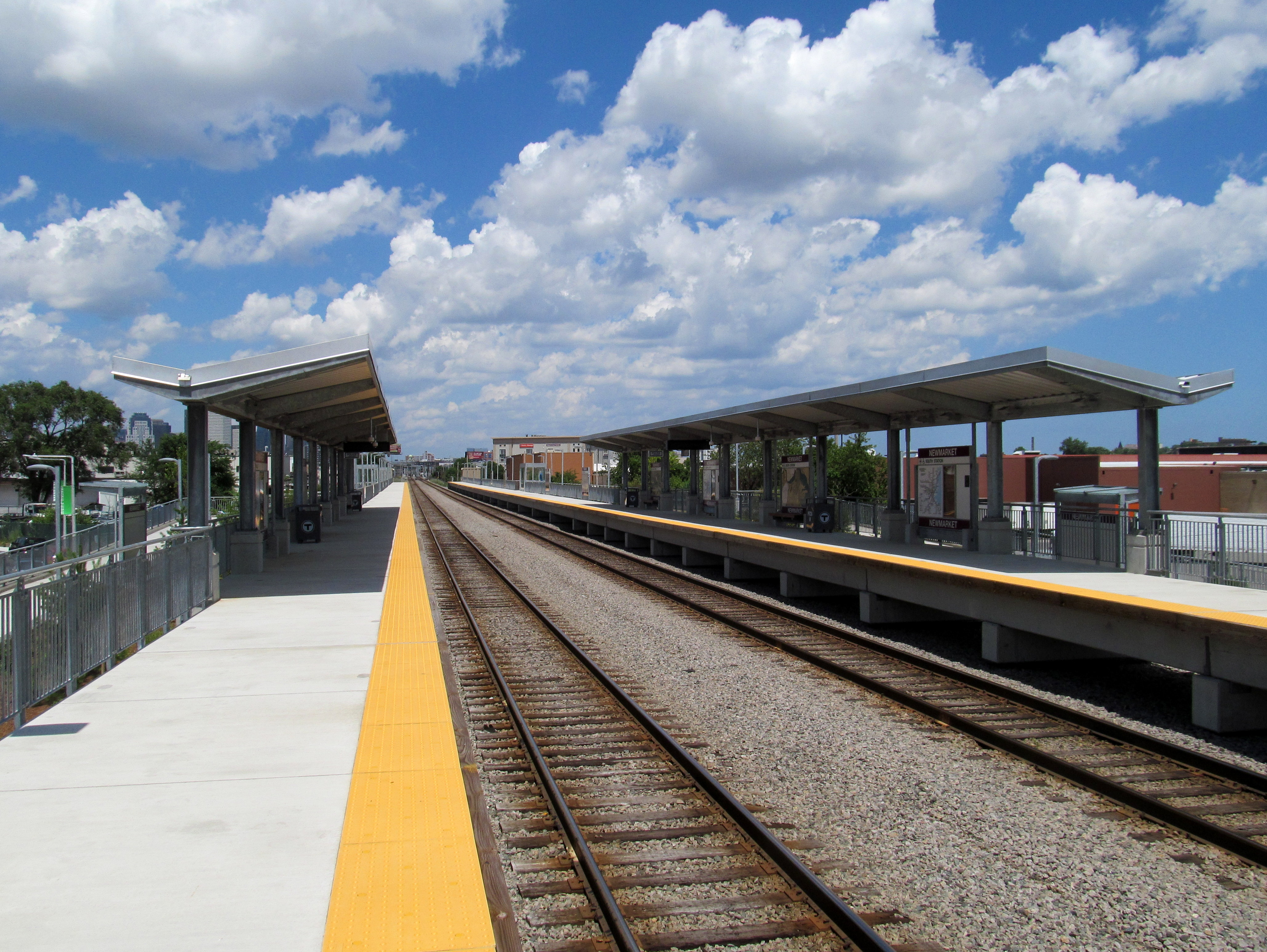 Looking inbound at the newly opened Newmarket station in July 2013